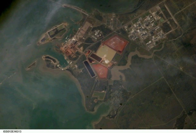 Satellite image of Point Comfort